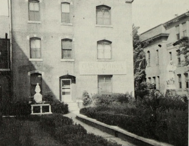 Early Puerto Rican church in South Holyoke.